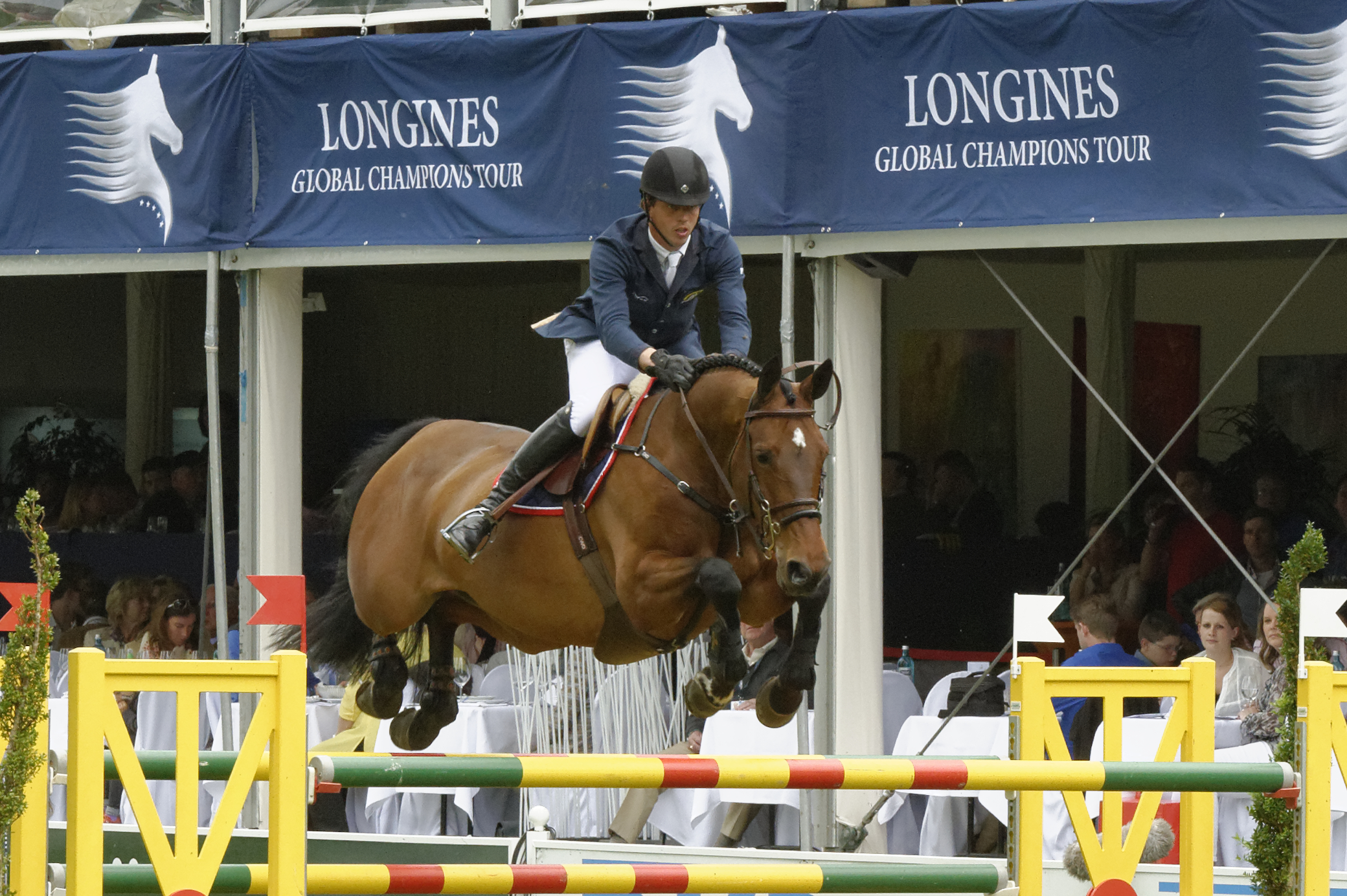 Internationales Pfingstturnier Wiesbaden 2013 The making of this document was supported by the Community-Budget of Wikimedia Germany.